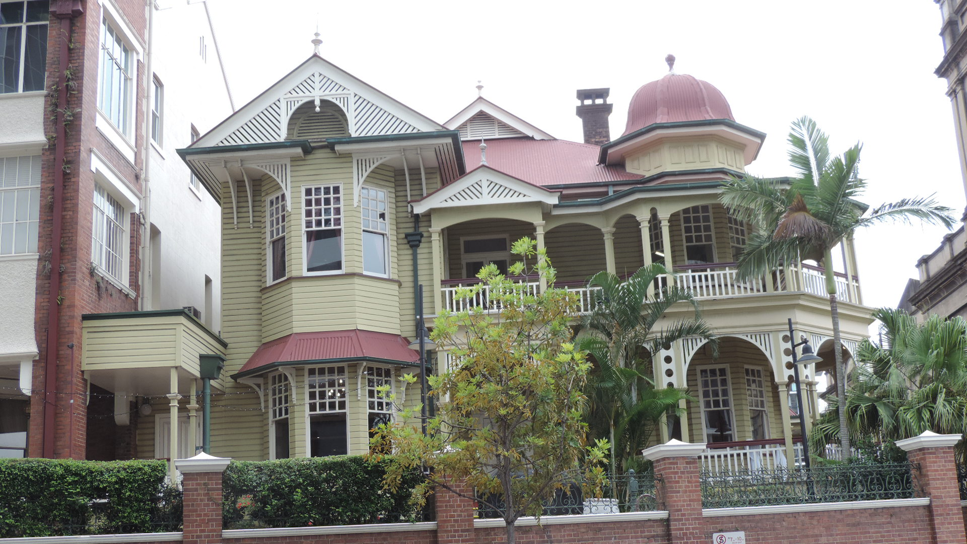 The Green House, United Service Club Premises, Wickham Terrace, Spring Hill, Brisbane, 2015